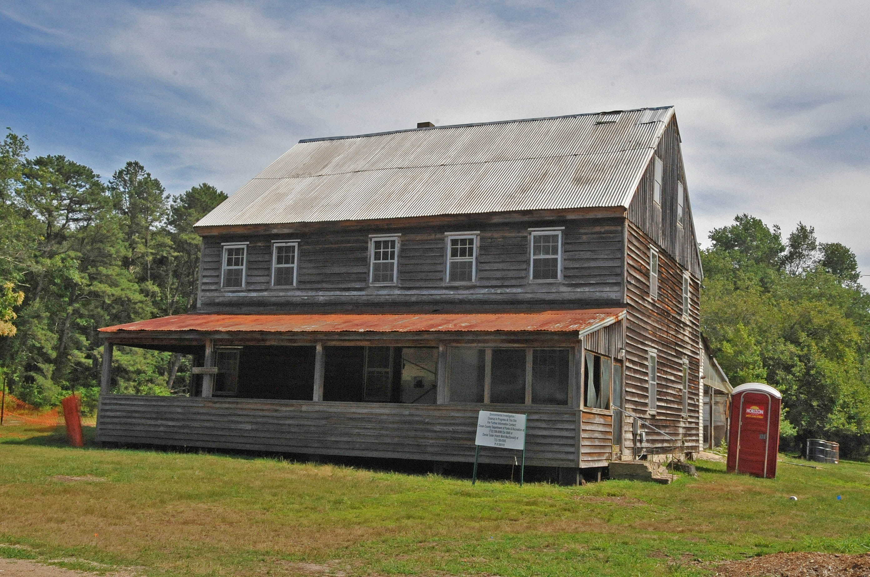 THIS IS THE SITE OF THE LAST SKIRMISH IN NEW JERSEY IN 1782 AND POSSIBLE THE LAST BATTLE OF THE REVOLUTIONARY WAR. IT OCCURRED BETWEEN AMERICAN PATRIOTS AND AMERICAN LOYALISTS HEADED BY PRIVATEER CAPTAIN JOHN BACON. THESE MEN WERE HIDING IN THE PINELANDS NEAR MANAHAWKIN. A RE-ENACKMENT OF THE BATTLE OCCURS EACH YEAR RIGHT AROUND THE TAVERN. IT IS NOT CERTAIN IF THE TAVERN WAS THERE WHEN THE BATTLE TOOK PLACE BUT THE ROAD WAS A STAGECOACH ROAD VERY EARLY. THE TAVERN IS NOW OWNED BY THE COUNTY